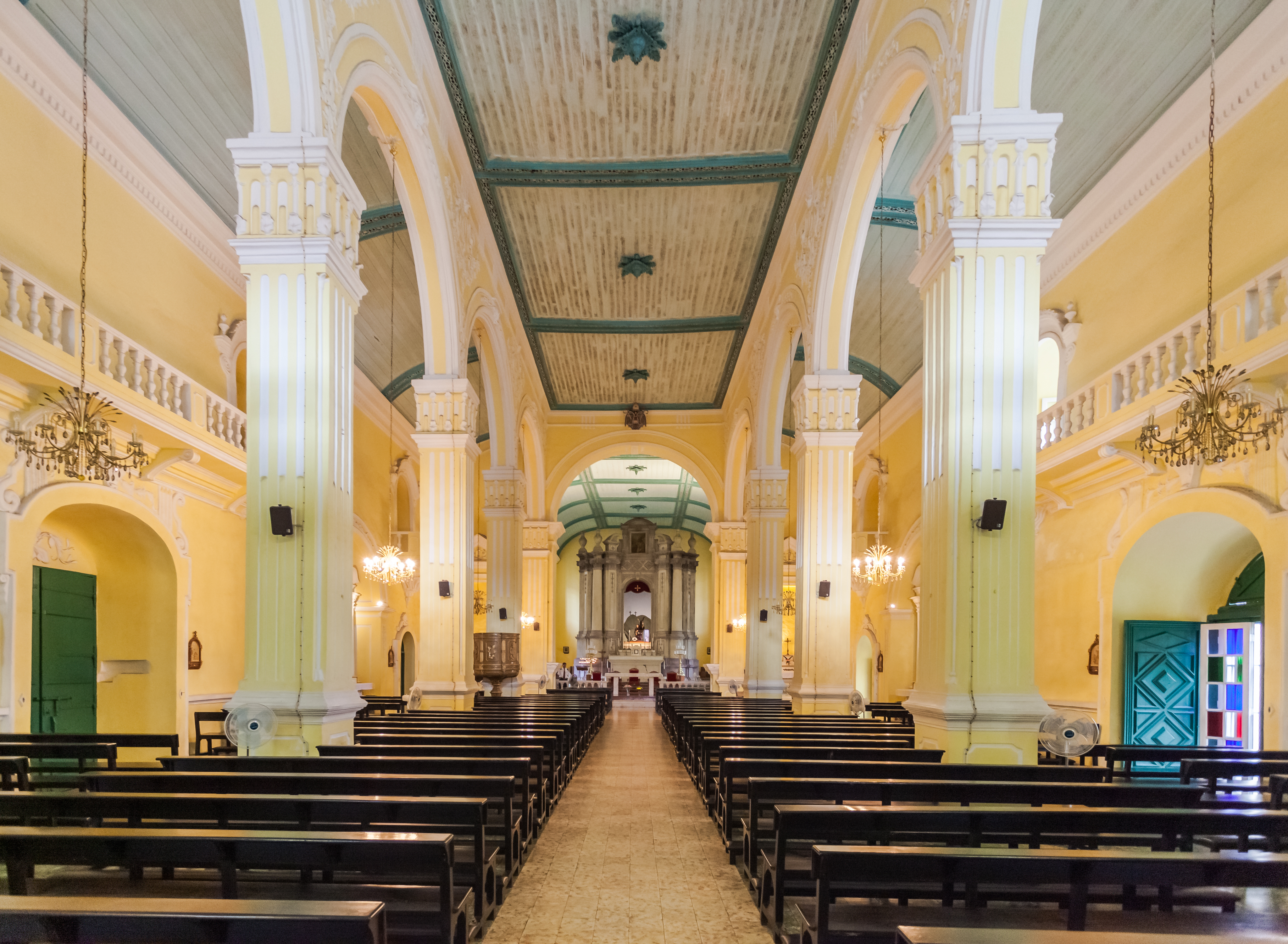 Saint Augustin Church, Macau